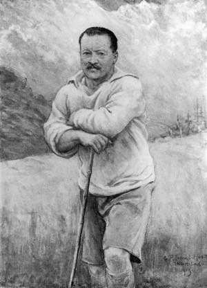 Charles Granville Bruce (1866-1939)